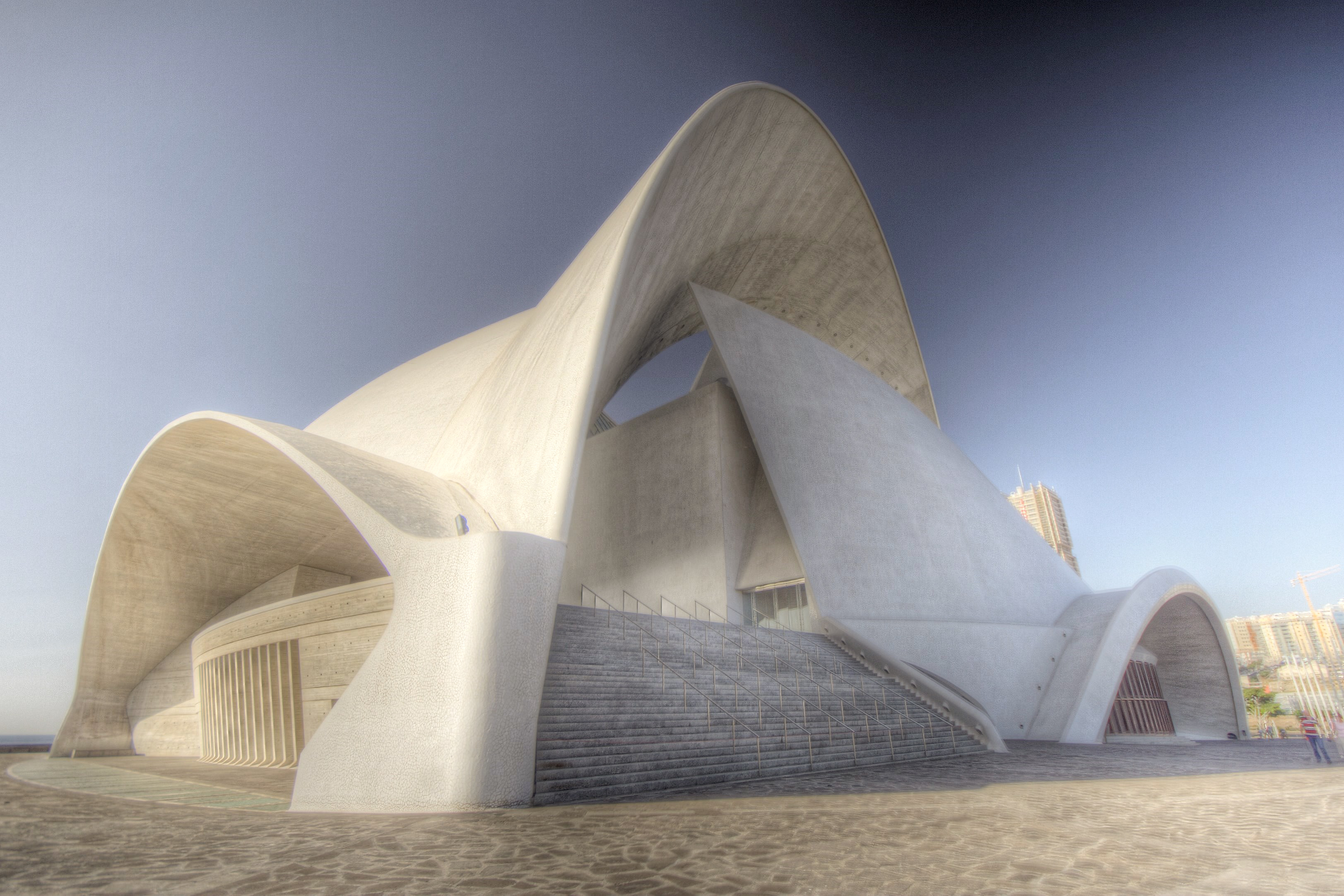 The concert hall of Santa Cruz de Tenerife. Designed by the architect Santiago Calatrava.